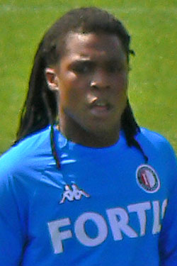 Royston Drenthe (Milan)